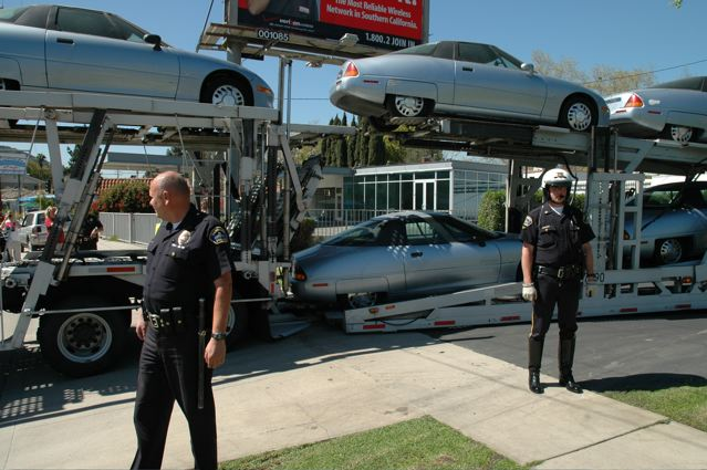 Police protecting transport of GM EV1s to crushing location as a result of Don't Crush Campaign. Burbank, CA.